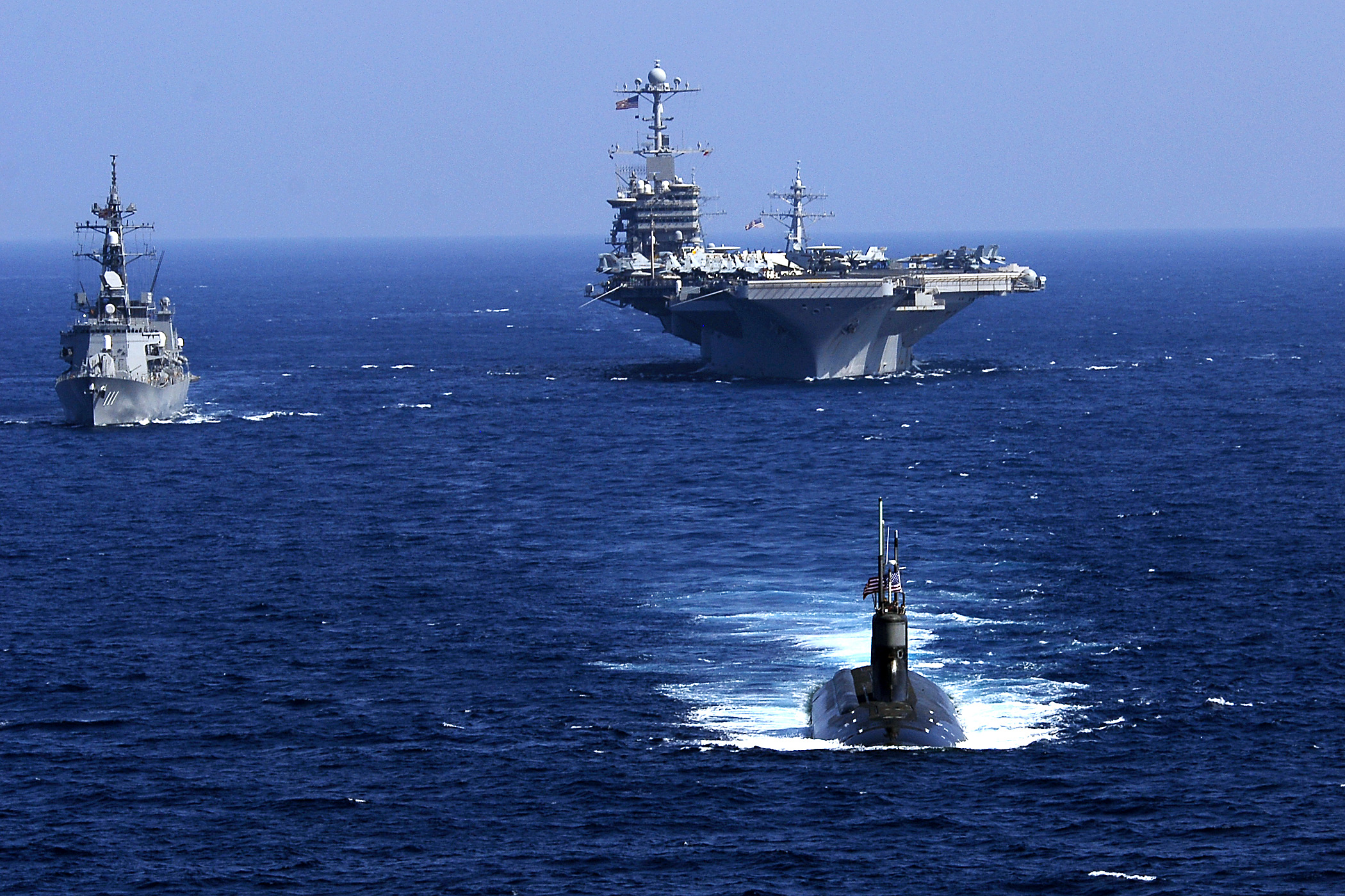 090212-N-6538W-029 PACIFIC OCEAN The Seawolf-class submarine USS Seawolf (SSN 21), leads the Japan Maritime Self-Defense Force destroyer JS Oonami (DD 111), left, and the Nimitz-class aircraft carrier USS John C. Stennis (CVN 74) after a successful undersea warfare exercise involving the John C. Stennis Carrier Strike Group, Japan Maritime Self-Defense Force and other naval vessels operating in the U.S. 7th Fleet area of responsibility. John C. Stennis is on a scheduled six-month deployment to the western Pacific Ocean.